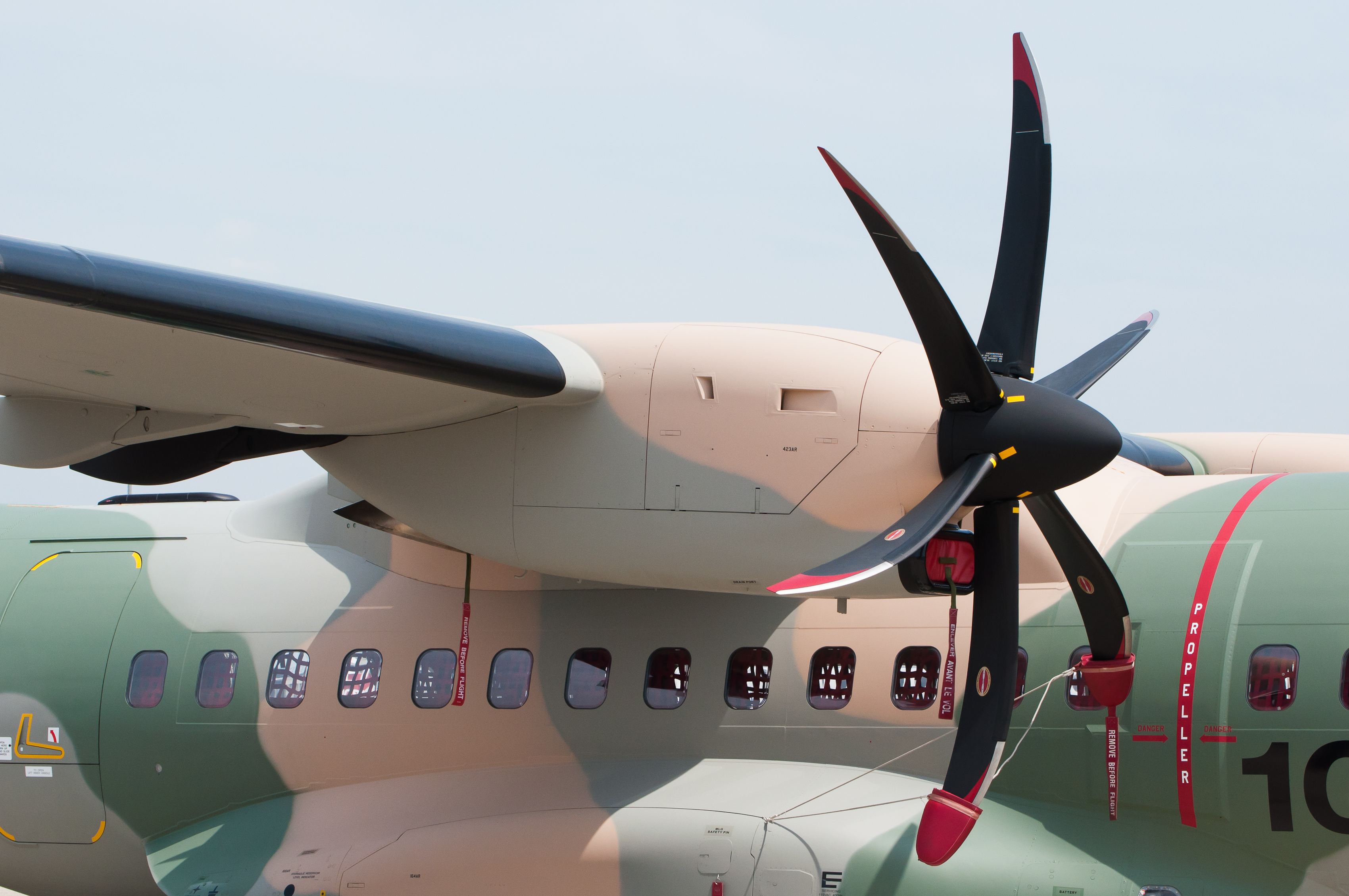 PW127G turboprop engine of a Royal Air Force of Oman EADS CASA C-295 (reg. 901, c/n 100) "100th C295" at Paris Air Show 2013.